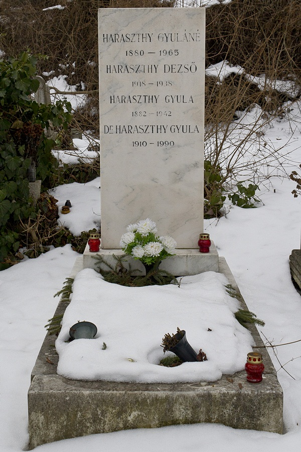 Tomb of Gyula Haraszthy (1910—1990), librarian, bibliographer